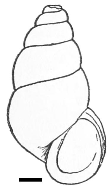 drawing of apertural view of a shell of Blanfordia japonica. The scale is 1 mm.